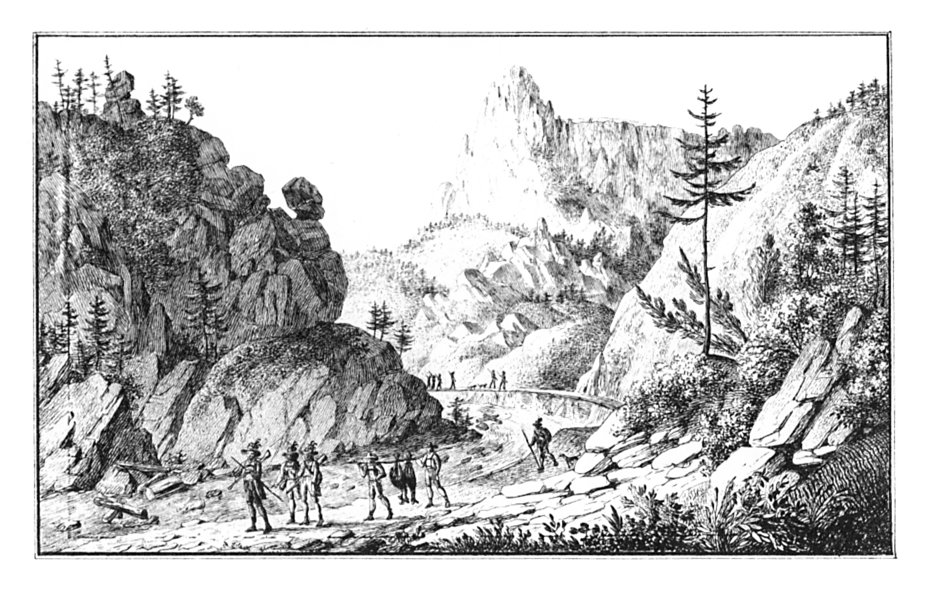 J. F. Kaiser - lithographirte Ansichten der Steyermärkischen Städte, Märkte und Schlösser, Graz 1824-1833 Joseph Franz Kaiser (1786–1859) Alternative names J. F. KaiserDescriptionAustrian printer and editorDate of birth/death 11 March 1786 19 September 1859Location of birth/death Graz (Styria) GrazAuthority control : Q1499963 VIAF: 30629353 ISNI: 0000 0000 3083 0153 LCCN: n87141671 GND: 129880159 NLP: A24960305 WorldCat creator QS:P170,Q1499963 . Scanprojekt Community Projektbudget 2012 This scan or this PDF-file was created within the GLAM-project Bookscanning, supported by Wikimedia Germany and Wikimedia Austria as a part of the community-project to capture books, documents and pictures which are not eligible to copyright or for which the copyright has expired. This document describes or depicts an object which is located in Austria today. Send requests for uncompressed scans to Hubertl. This work is in the public domain in its country of origin and other countries and areas where the copyright term is the author's life plus 100 years or less. You must also include a United States public domain tag to indicate why this work is in the public domain in the United States. This file has been identified as being free of known restrictions under copyright law, including all related and neighboring rights.